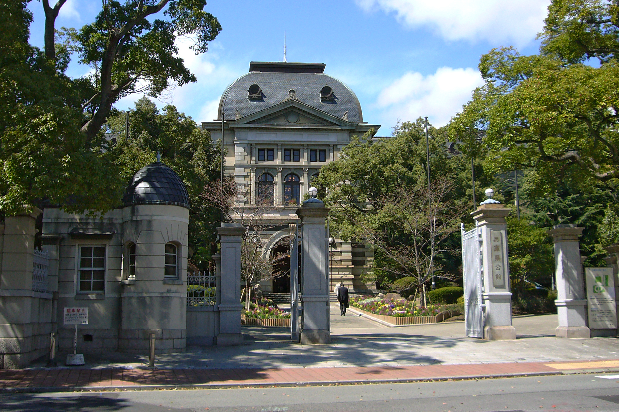 Old Hyogo Prefectural Office Building in Kobe, Hyogo prefecture, Japan